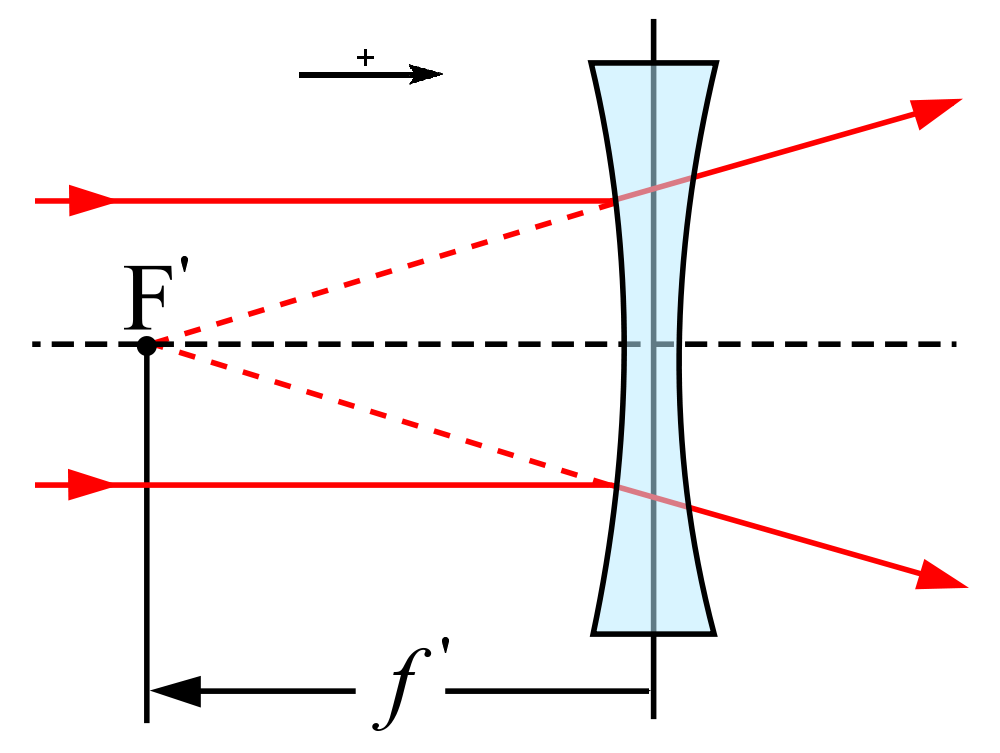 The focus F and the focal length f (negative) of a negative lens.